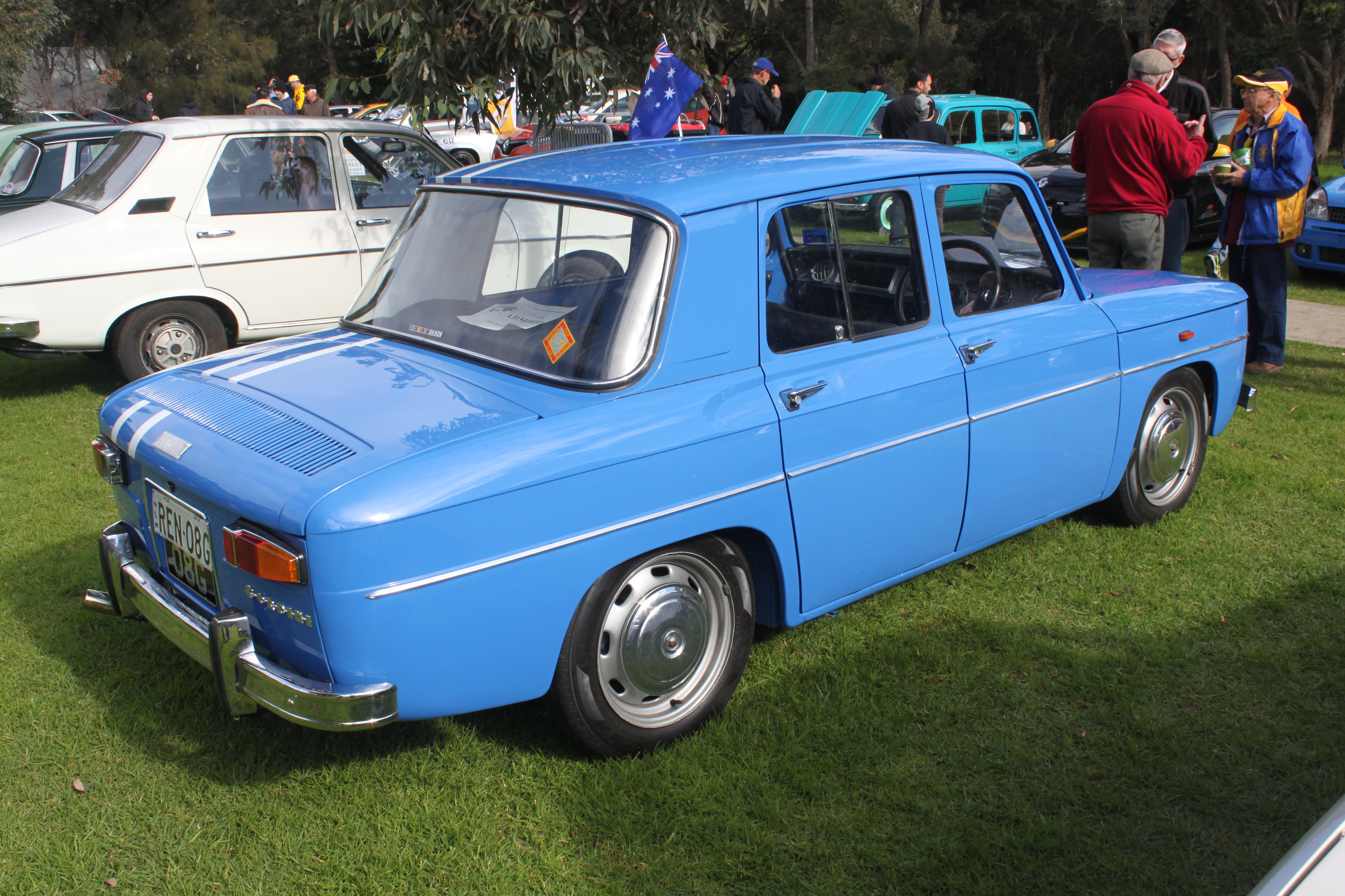 All French Day, Silverwater Park, NSW July 2015